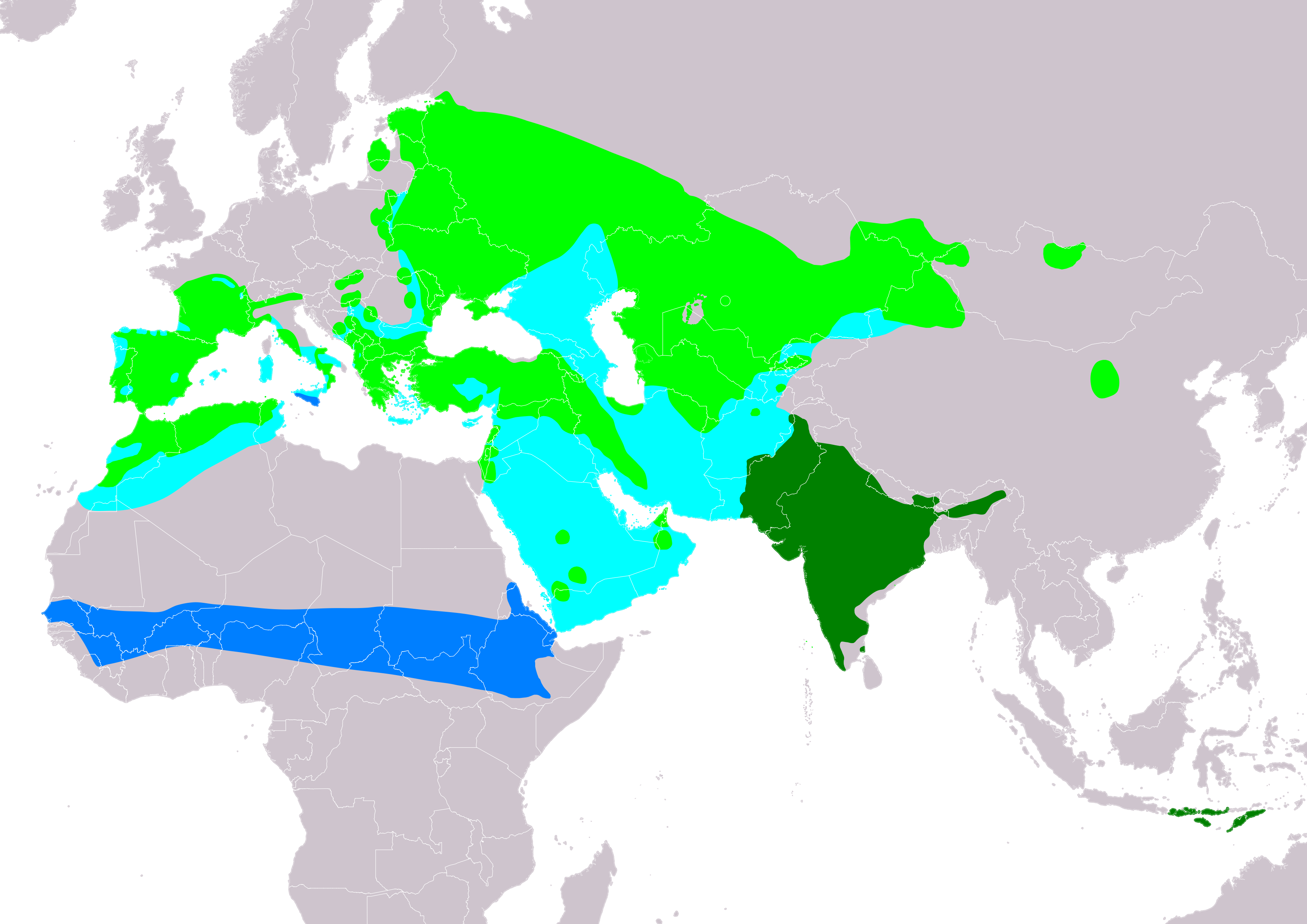 Distribution map of short-toed snake-eagle (Circaetus gallicus) according to IUCN version 2019.2 ; key: Legend: Extant, breeding (#00FF00), Extant, resident (#008000), Extant, passage (#00FFFF), Extant, non-breeding (#007FFF)